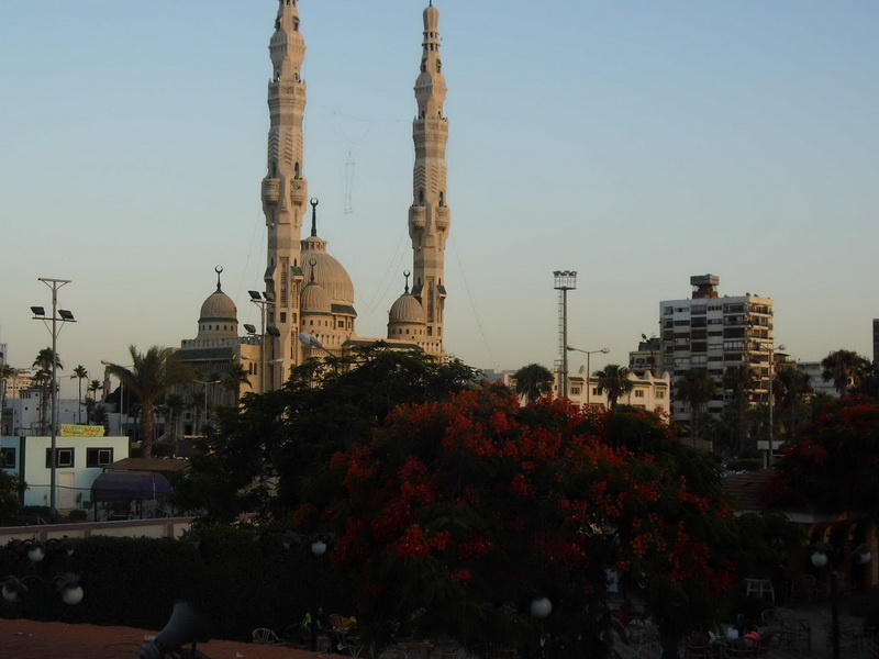 المسجد الكبير ببورفؤاد